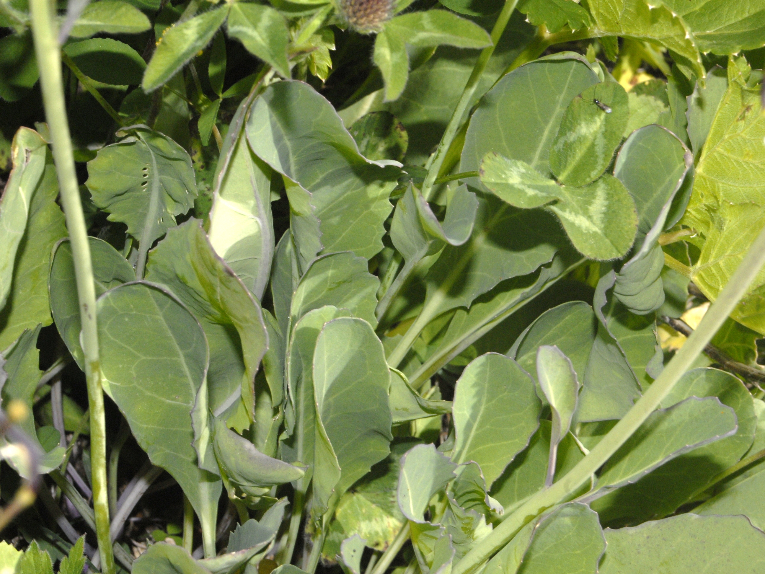 Leaves of Coincya richeri at the Giardino Botanico Alpino Chanousia